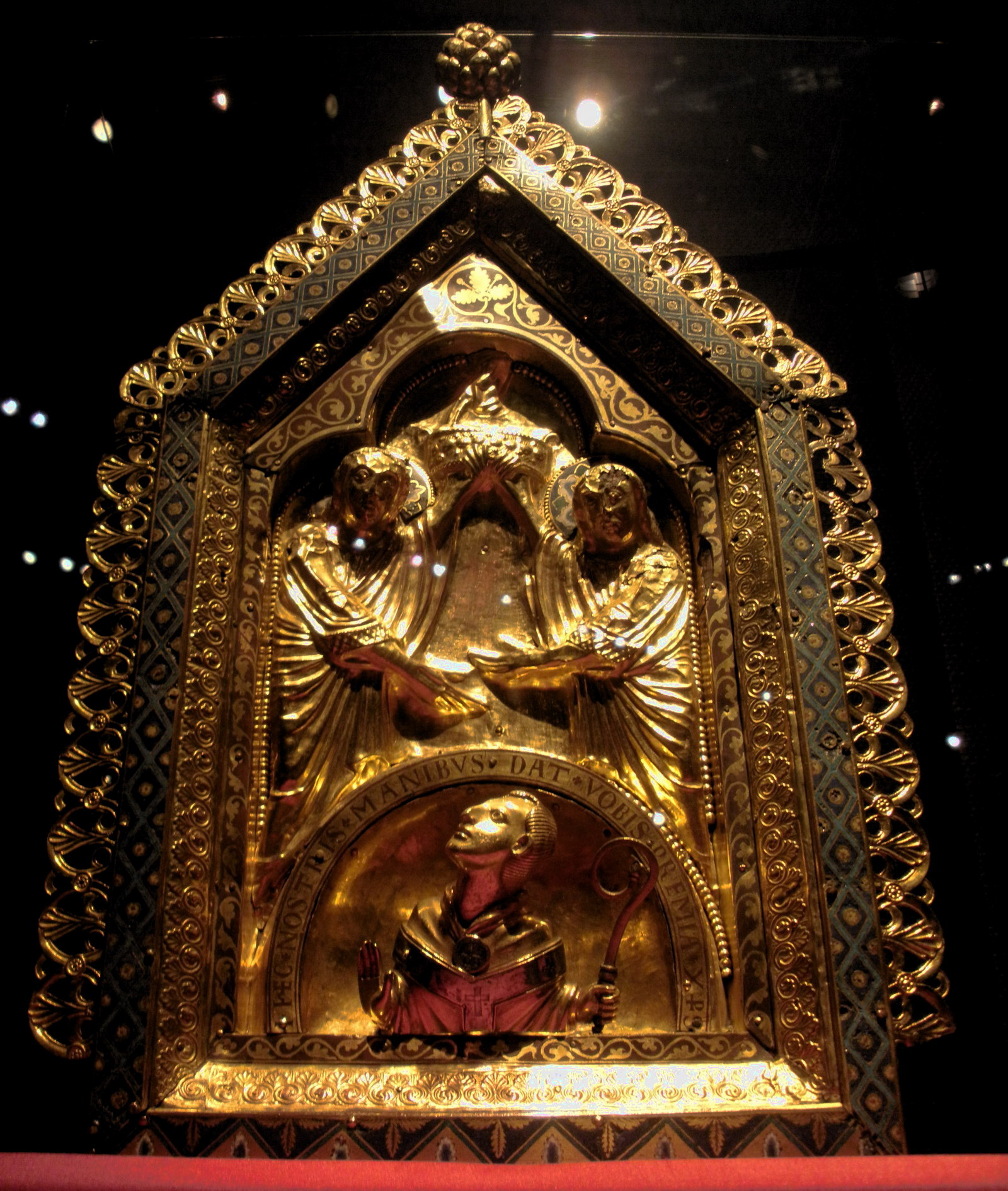 Reliquary of Saint Gondulph. Mosan (Maastricht?), XIIth c., gilded copper over oak wood with filigrain and enamel. Originally part of the treasure of the church of Saint Servatius, Maastricht, Netherlands, where it was displayed, together with 3 other reliquaries, on either side of the reliquary chest of Saint Servatius. Collection: Royal Museums of Art and History (Cinquantenaire Museum), Brussels, Belgium.